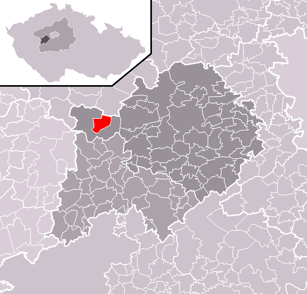 Location of Kublov municipality within Beroun District and administrative area of Beroun as a Municipality with Extended Competence.